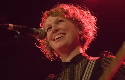 Caithlin DeMarrais of Rainer Maria. Photo by Bob Sanderson